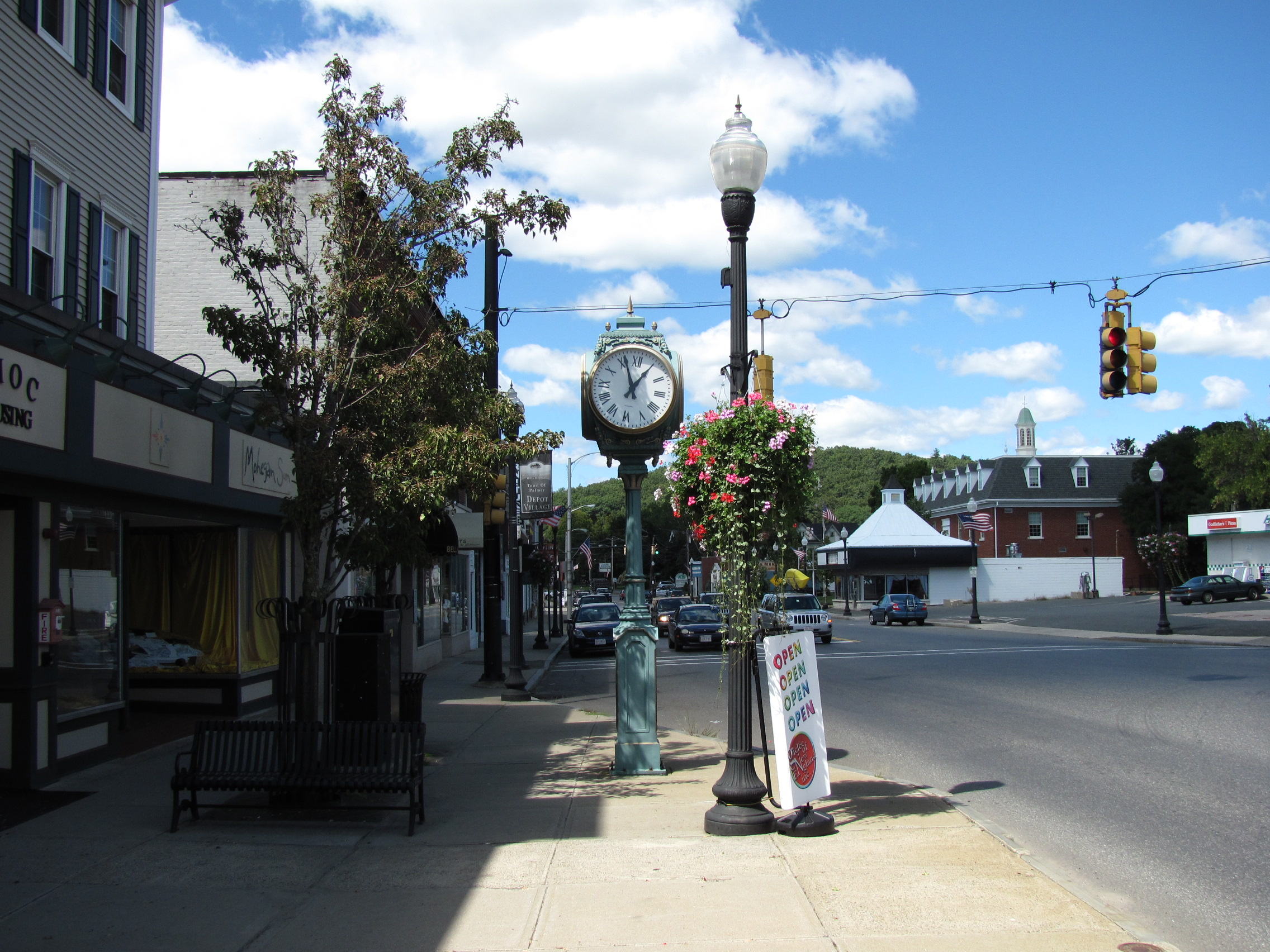 Main Street, Palmer Massachusetts, August 2010